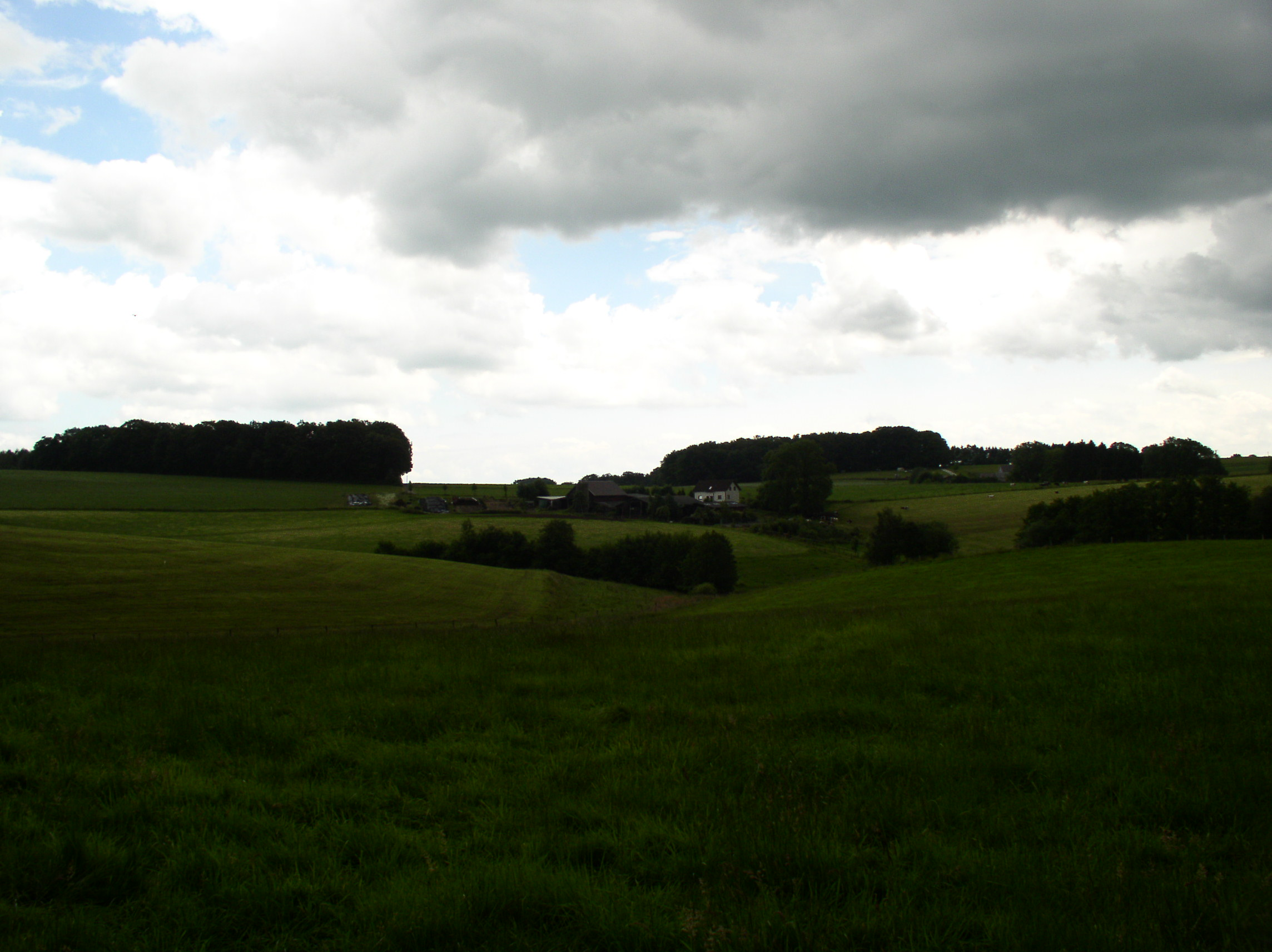 Halver - Wiebusch-Hedfeld